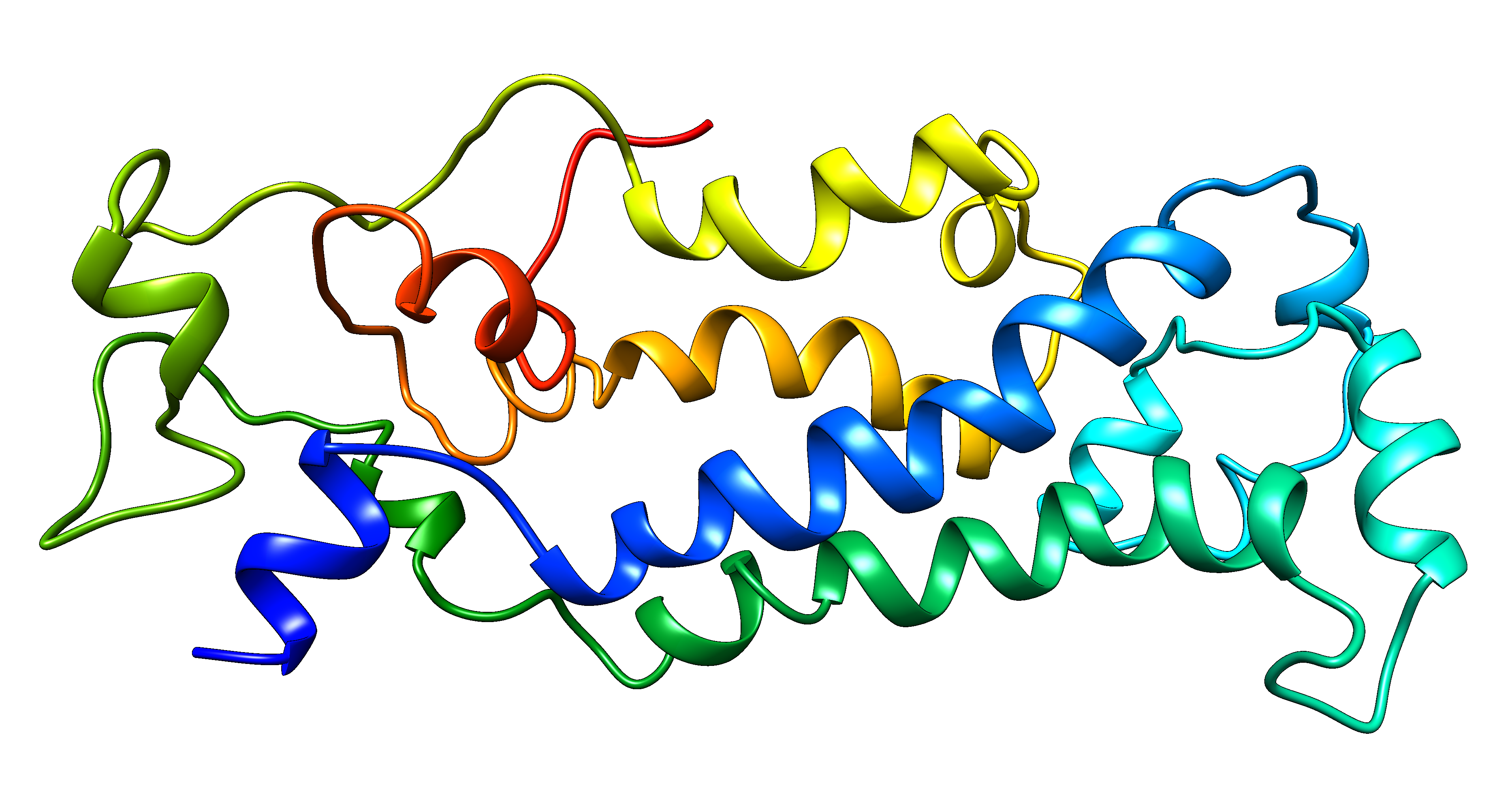 Phyre2 generated model of C16orf78 rendered in Chimera. 253 of 265 residues were modeled ab initio.